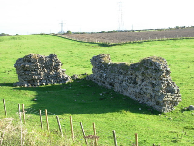 Burrow Walls, near to Seaton, Cumbria, Great Britain. Remains of the Roman Fort